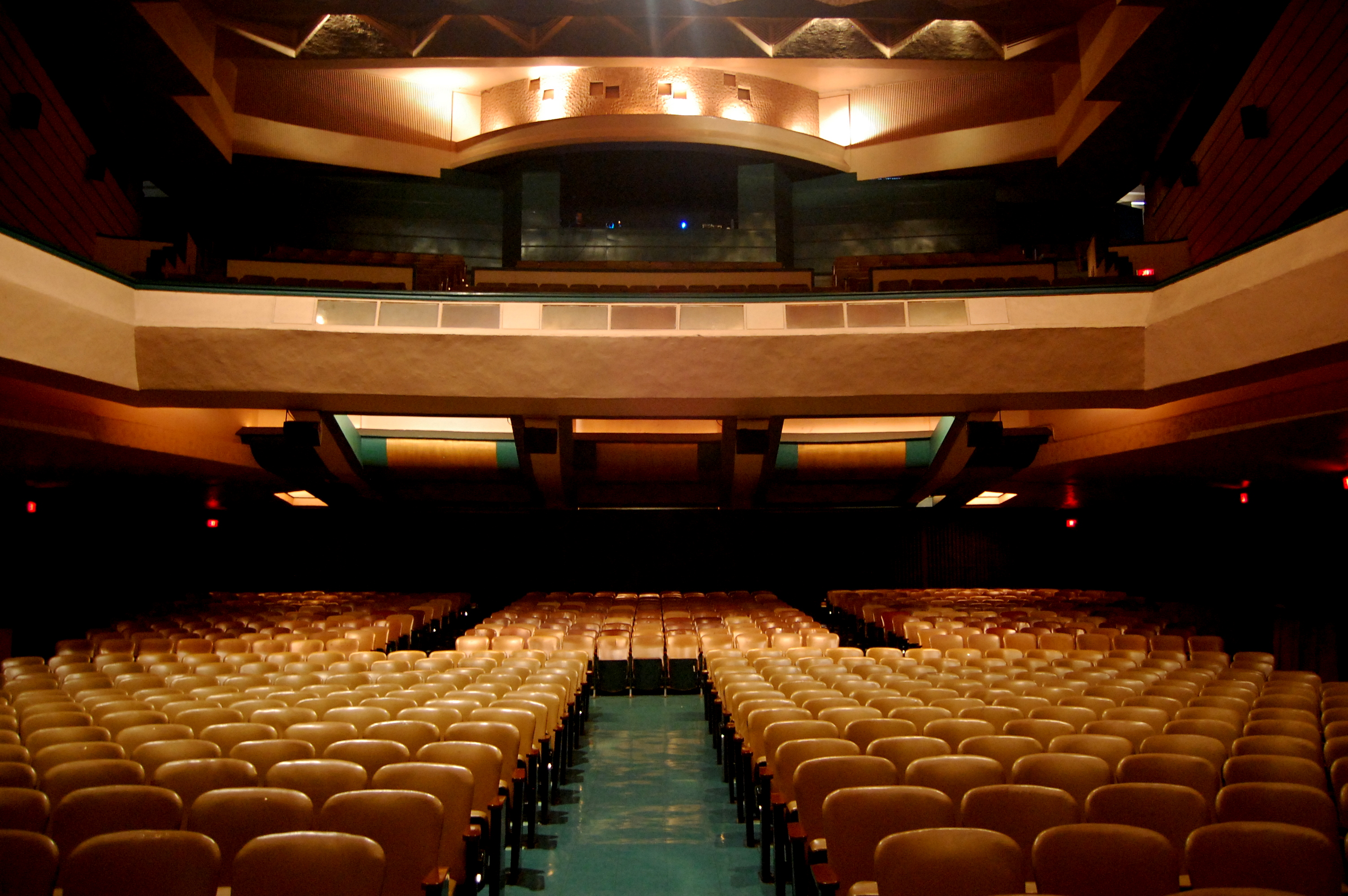 Interior View of FEU Auditorium